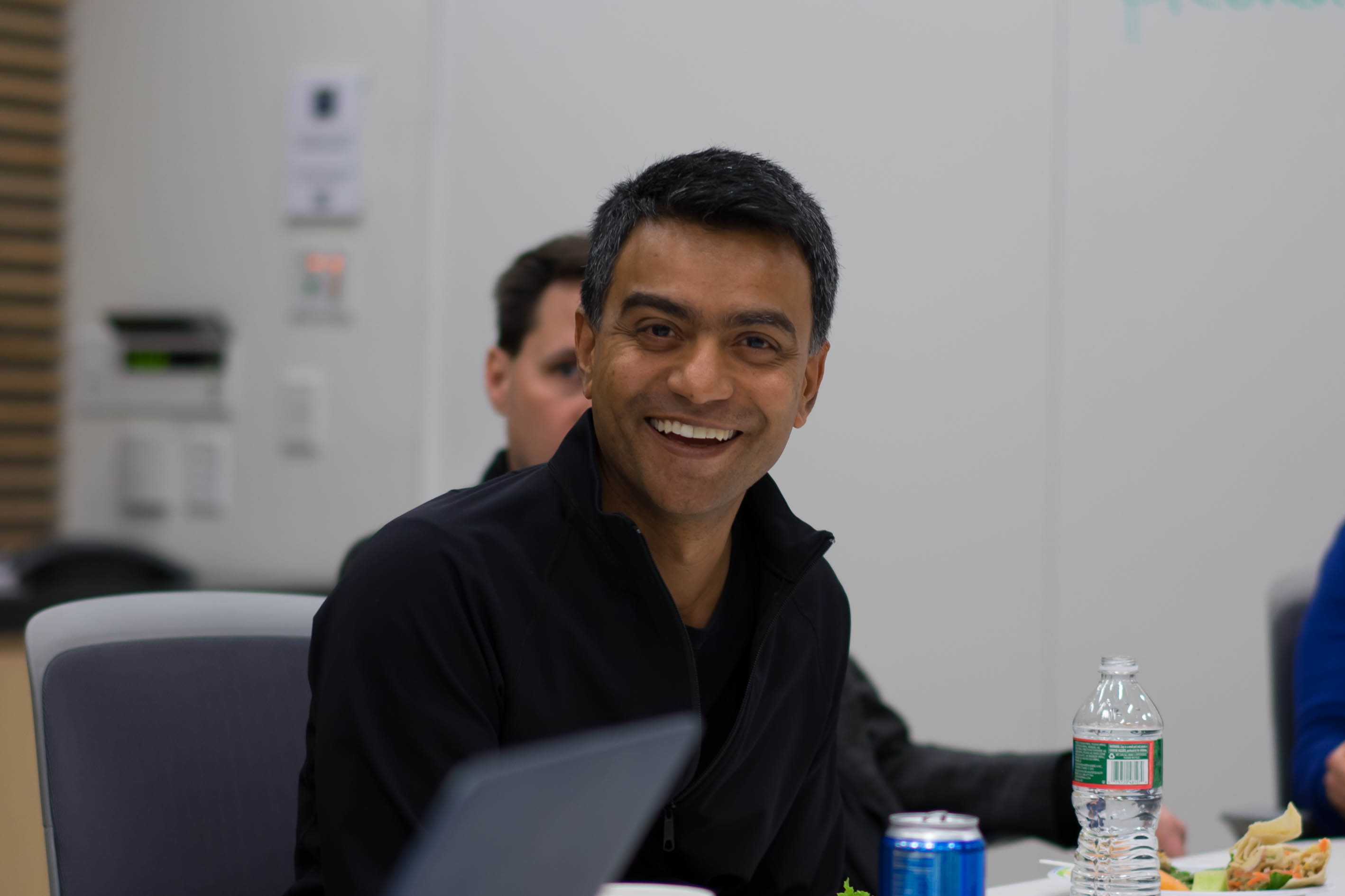 Deb Roy, Faculty meeting, Cambridge, 2014-01-10